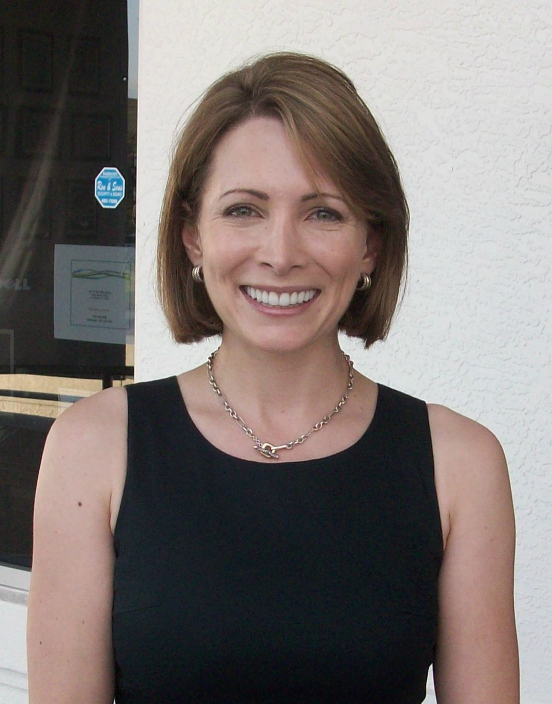 Olympic gold medalist Shannon Miller in Fort Myers, FL